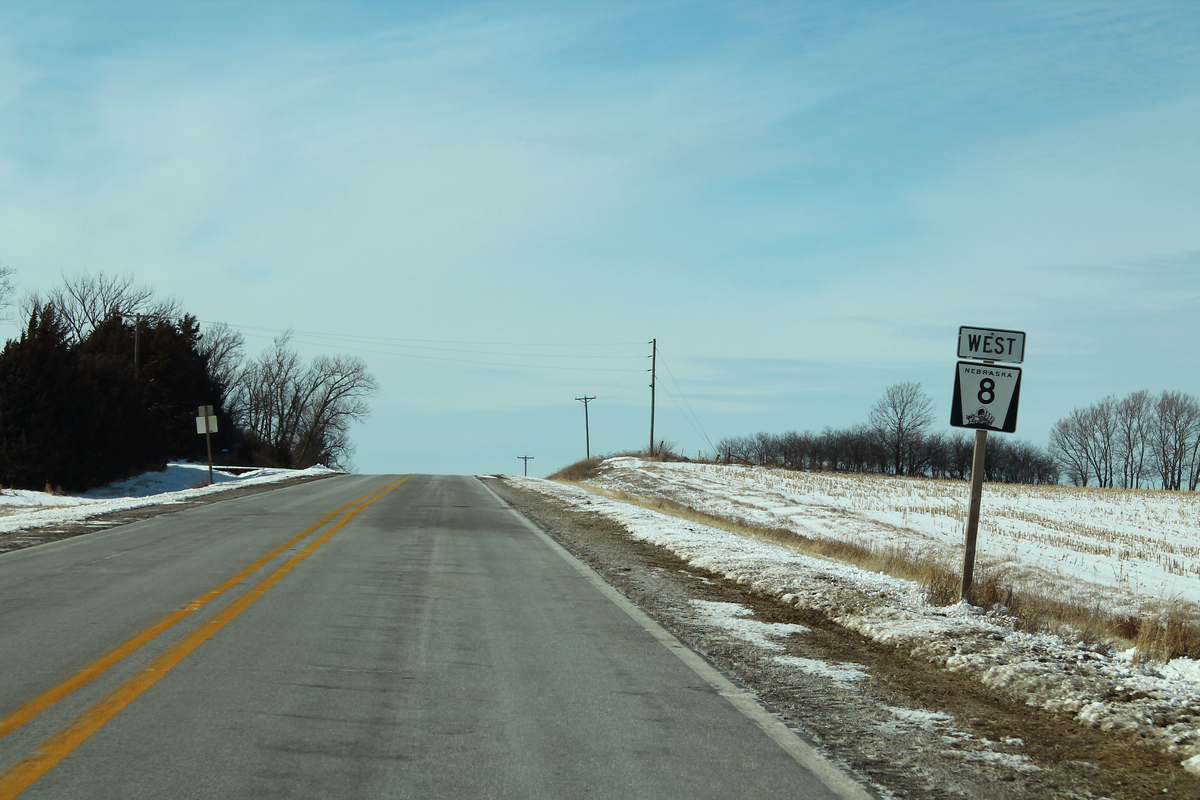 NE8wRoadSign2